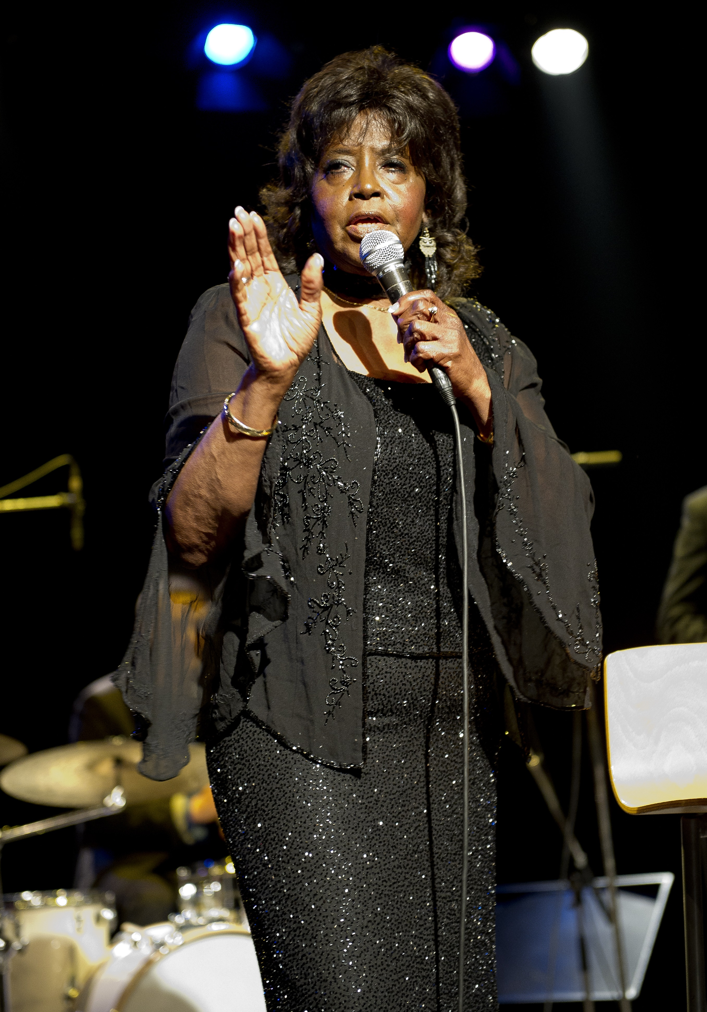 Baby Washington at Mojo Workin' in 2014